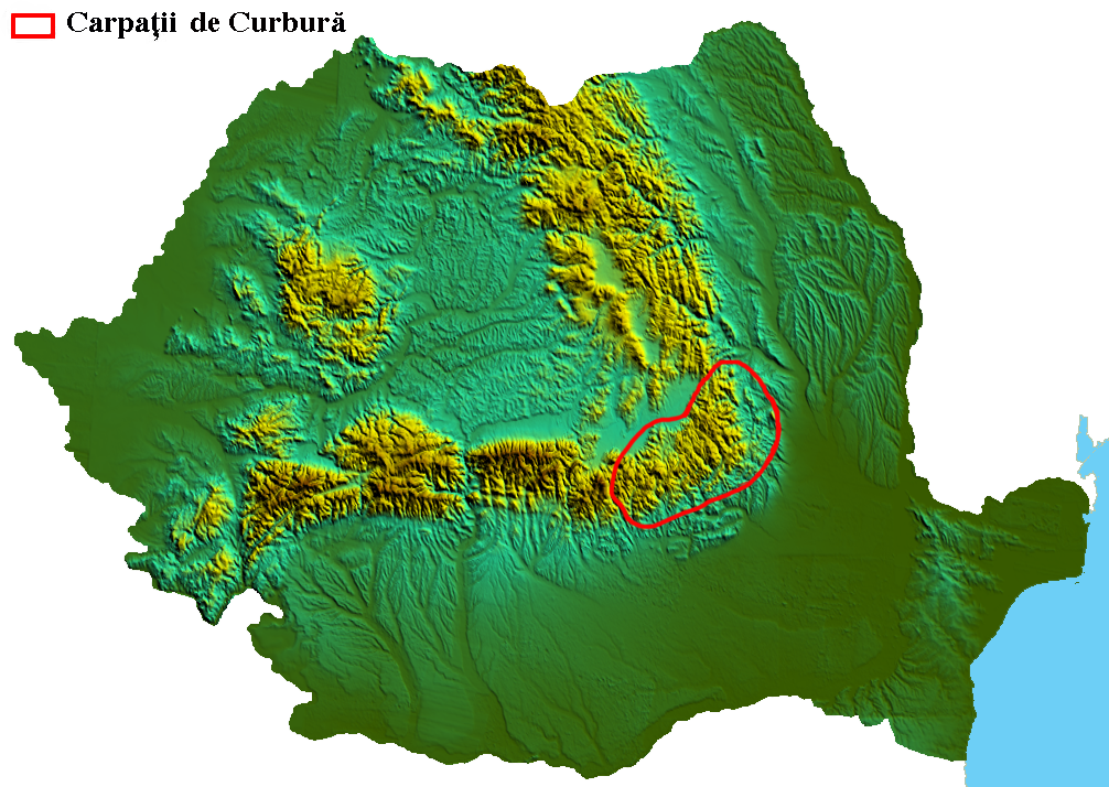 Derivative map since Qyd's map Romania-relief.png ([1]) and Marcussep's map Mapcarpat2.png ([2]), according with Albert Demangeon & Emmanuel de Martonne works ("Recherches sur l'évolution morphologique des Alpes de Transylvanie (Carpates méridionales)", Paris, Delagrave, 1906 and Géographie universelle (dir. Vidal de la Blache, Gallois), vol. IV : "Europe centrale", Paris, Armand Colin, 1930 & 1931